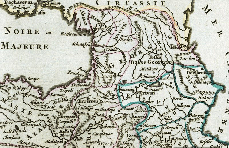 The detail from the map "Turquie Asiatique" by GILLES ROBERT DE VAUGONDY, from the "Atlas portatif, Universelle", printed in Paris, in 1748.